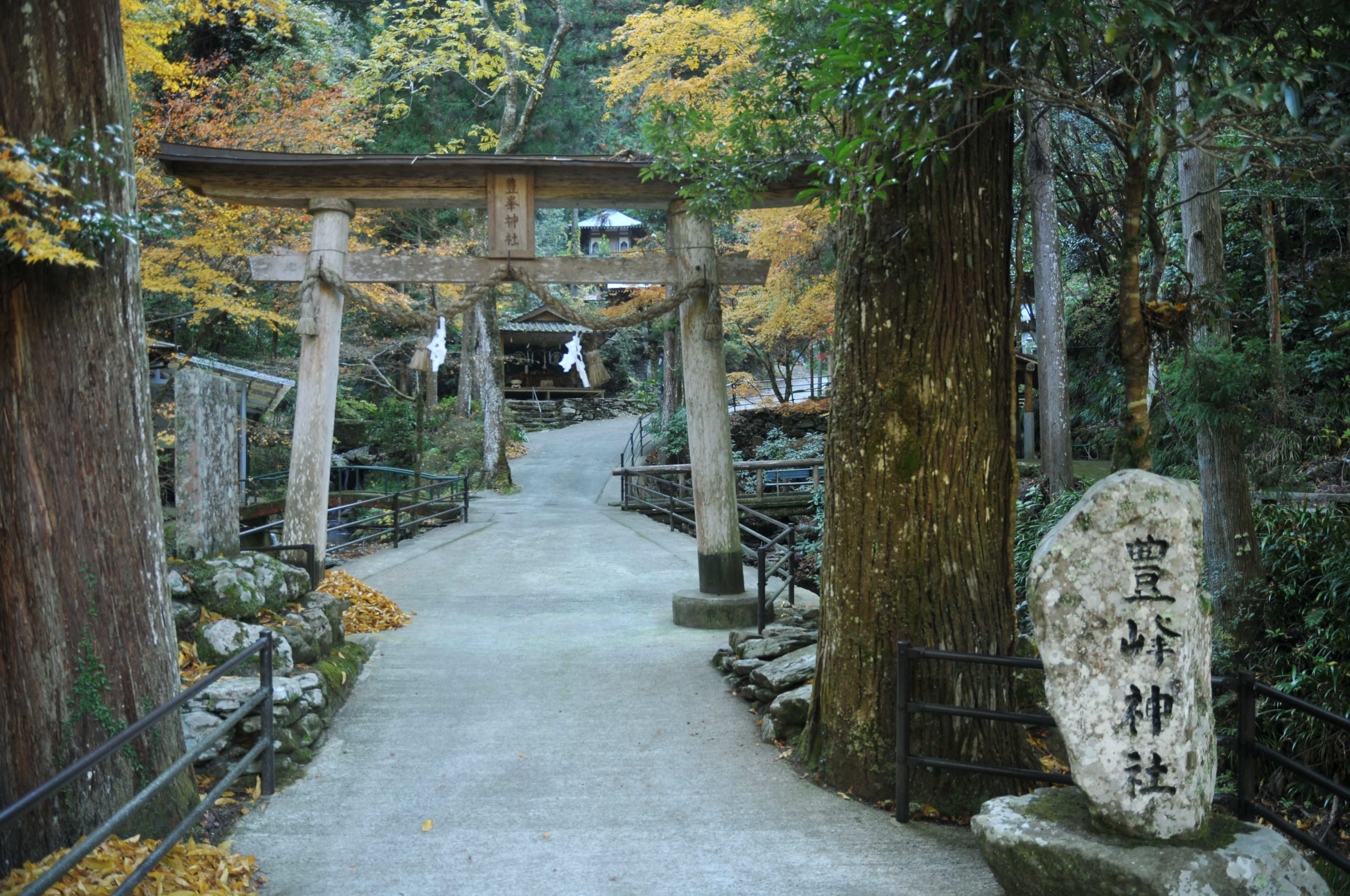 Entrance of Ishizuchi-dera